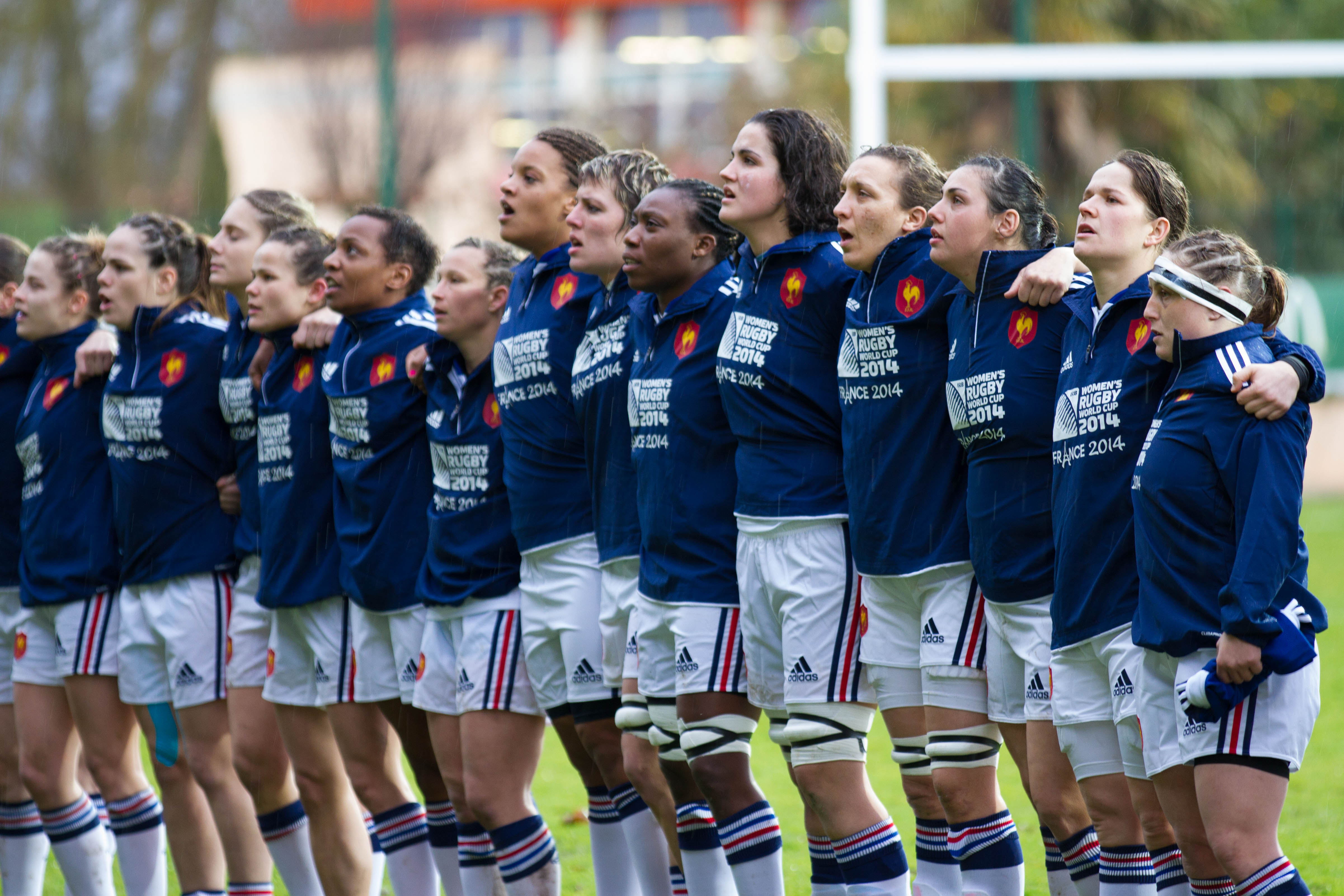 2014 Women's Six Nations Championship — 9 February 2014, Stade Ernest Argeles. Match between: France women's national rugby union team — Italy women's national rugby union team